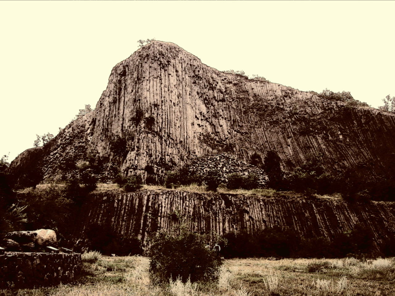 Hungary, Balaton, Zánka